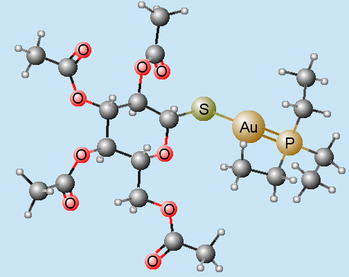 3D Chemical structure of the molecule Auranofin. Made with Corina Software